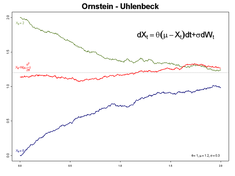 three sample paths of different OU-processes with θ=1, μ=1.2, σ=0.3: navy: initial value a=0 (a.s.) olive: initial value a=2 (a.s.) red: initial value normally distributed so that the process has invariant measure